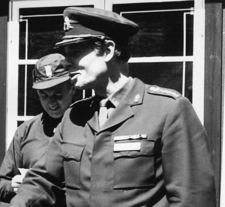 Award ceremony at Småland Artillery Regiment (A 6). Colonel Fredrik Lilliecreutz.